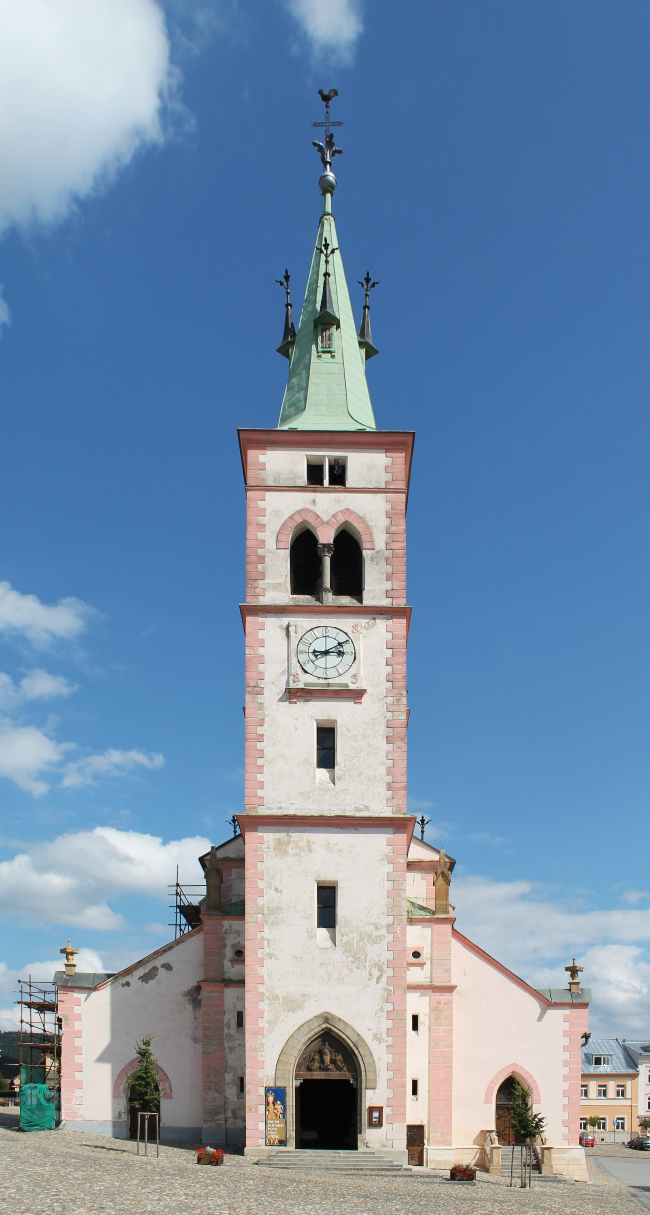 Church of Saint Margaret, Kašperské Hory, Klatovy District, Czech Republic - Google Maps - Google Earth